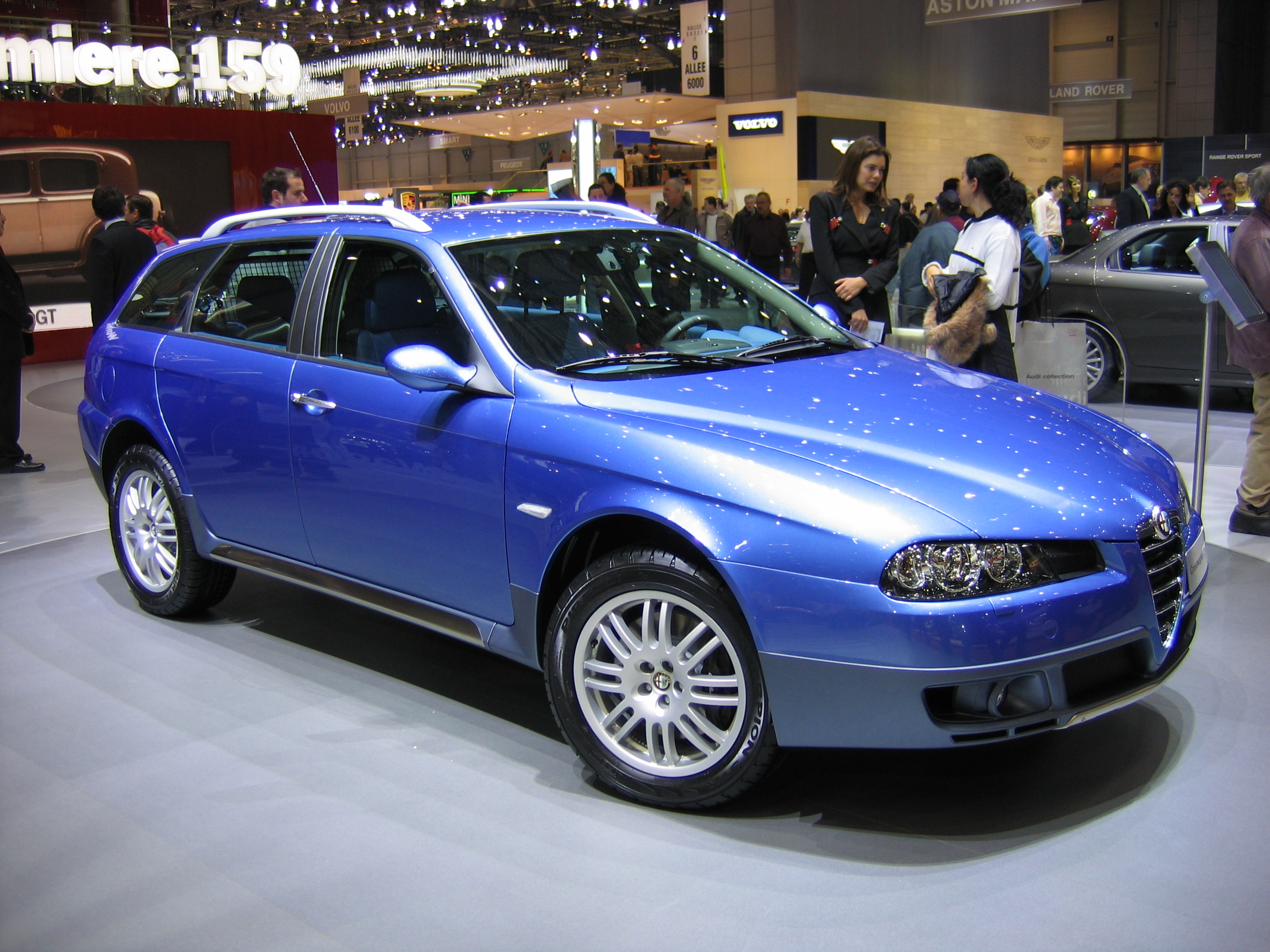 Geneva Motor Show 2005